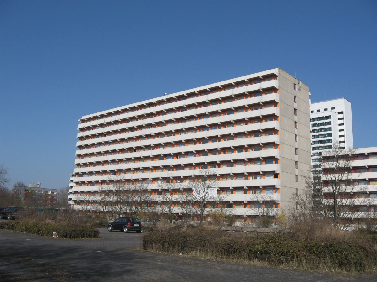 Studentenstadt Freimann in Munich